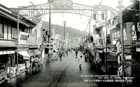 Okaido-street in Matsuyama, Ehime pref., Japan.